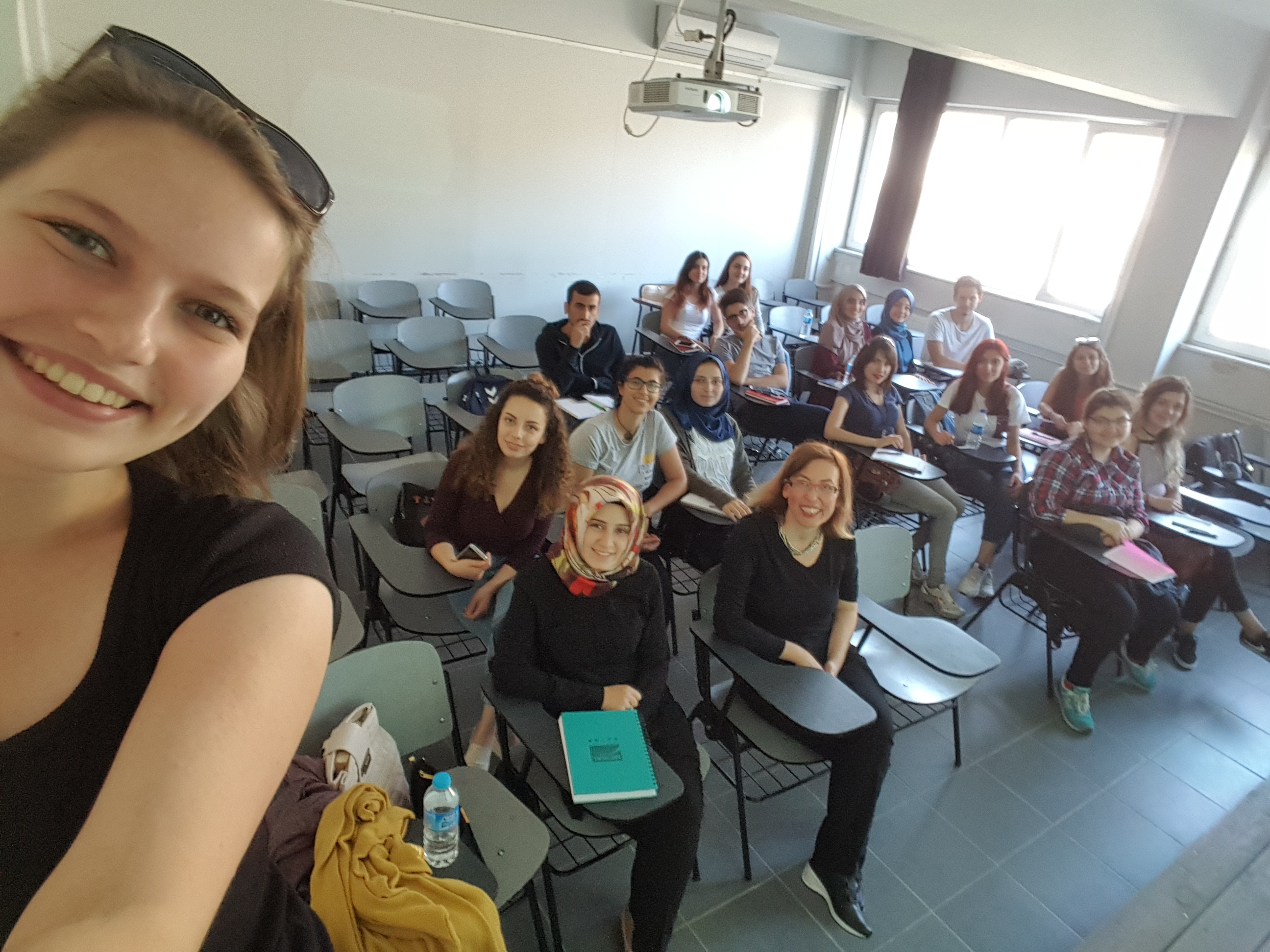 Uludag University Psychology Department, Bursa, Turkey. The students are getting prepeared to collect data on attitudes of Turkish university students towards Wikipedia for their Research Methods in Behavioral Sciences class.